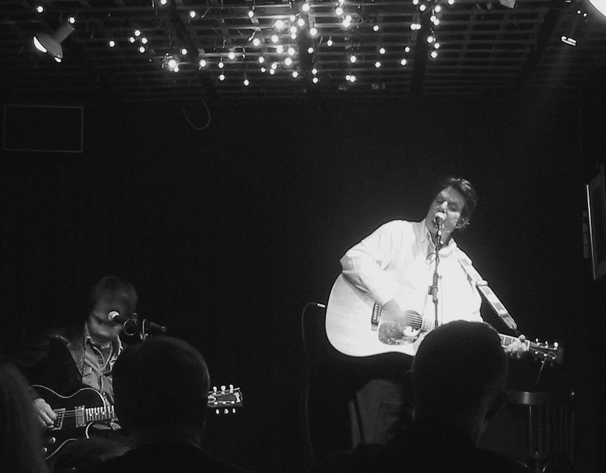 Oct. 10 2007, in café Cambrinus in Horst, Limburg NL, pop legend Phil Sloan and excellent support Duane Jarvis